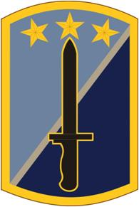 SSI of the 170th Infantry Brigade